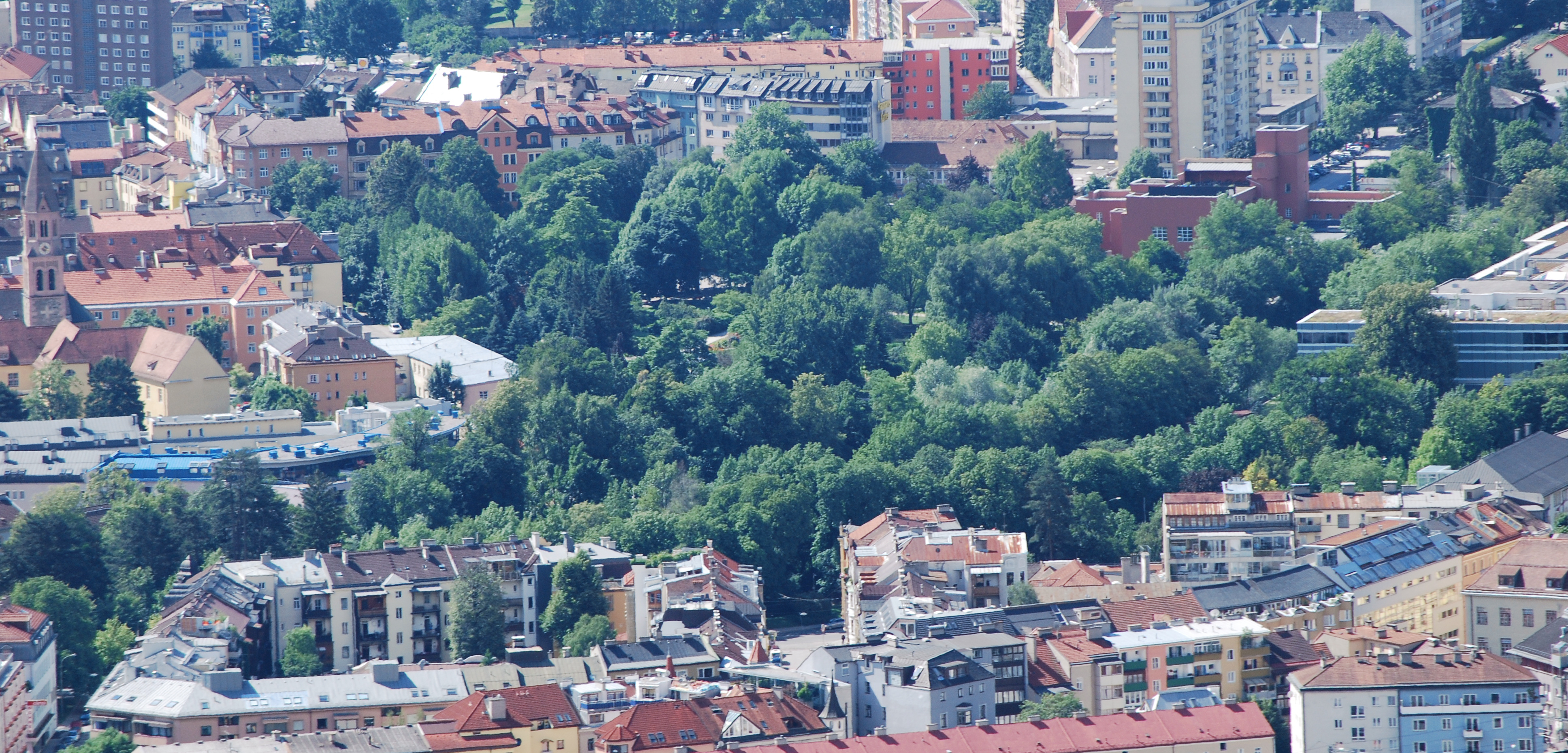 Rapoldipark from N